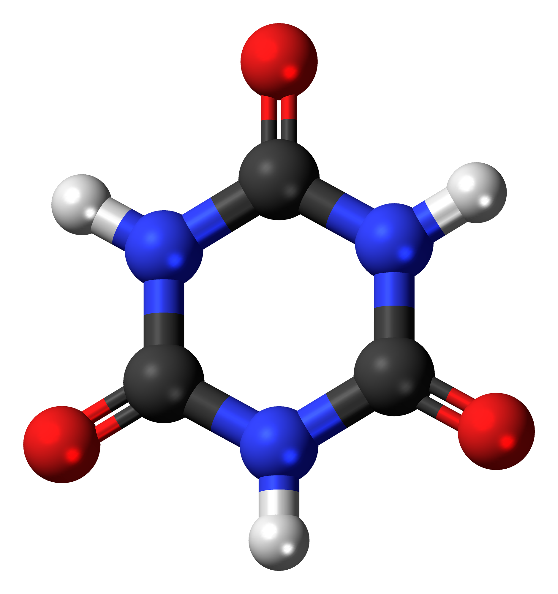 Ball-and-stick model of the cyanuric acid molecule, also known as isocyanuric acid, an important industrial chemical. This image shows the trione form. Colour code: Carbon, C: black Hydrogen, H: white Oxygen, O: red Nitrogen, N: blue